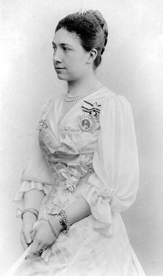 Victoria of Baden (1862-1930), queen of Sweden